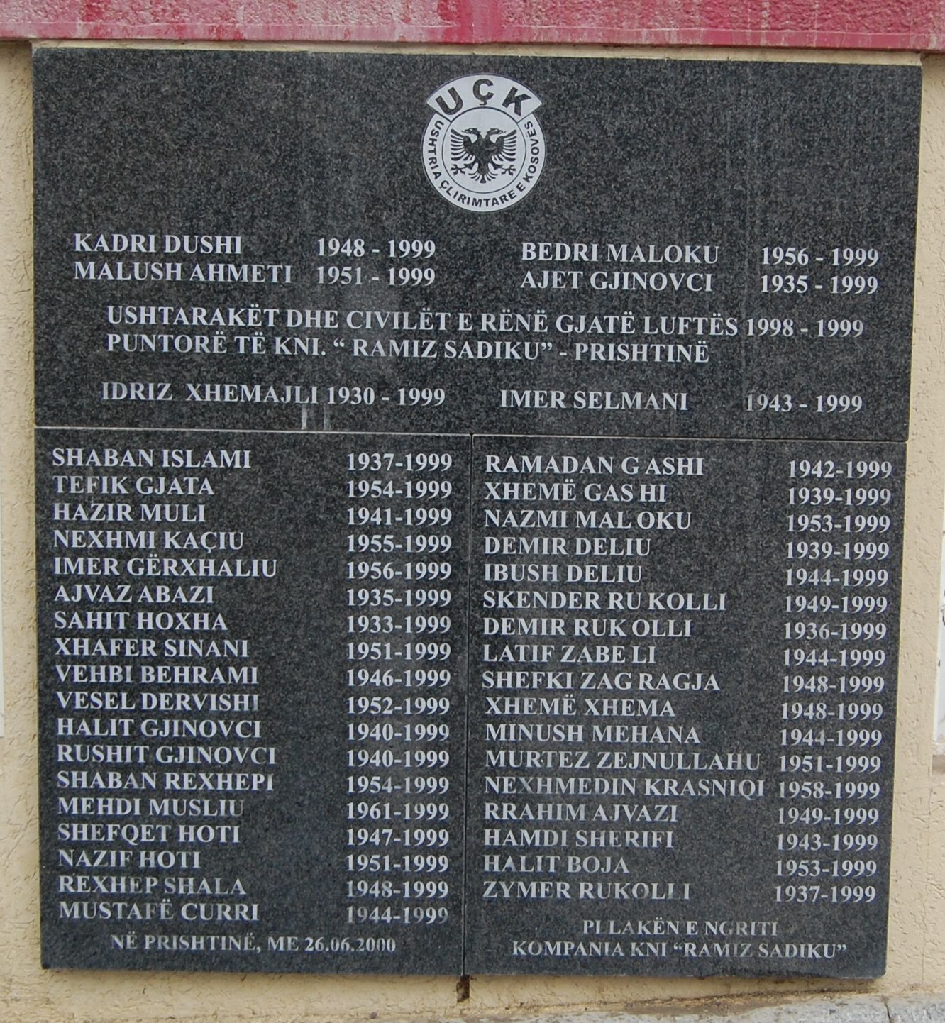 UCK (Kosovo Liberation Army) memorial, Rr. Fehmi Agani (north-eastern corner), Pristina, Kosovo. Transcription (partial): Kosovo Liberation Army Soldiers and civilians deceased during the 1998-1999 War Employees of KNI "Ramiz Sadiku" - Pristina In Pristine, Me 26.06.2000 Plaque erected by KNI company "Ramiz Sadiku"